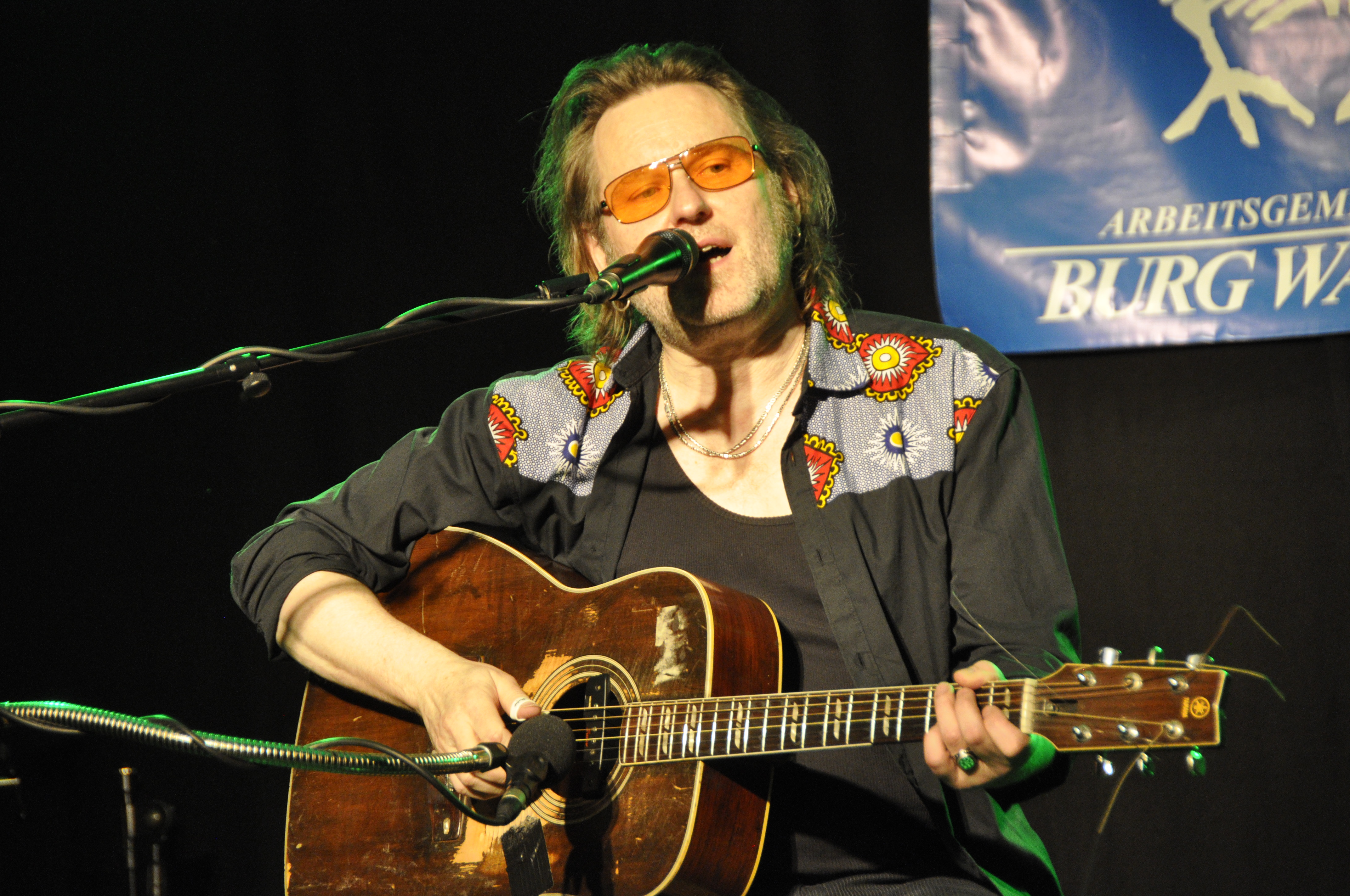 Songfestival 2014 Burg Waldeck, Germany, appearance: Stefan Stoppok